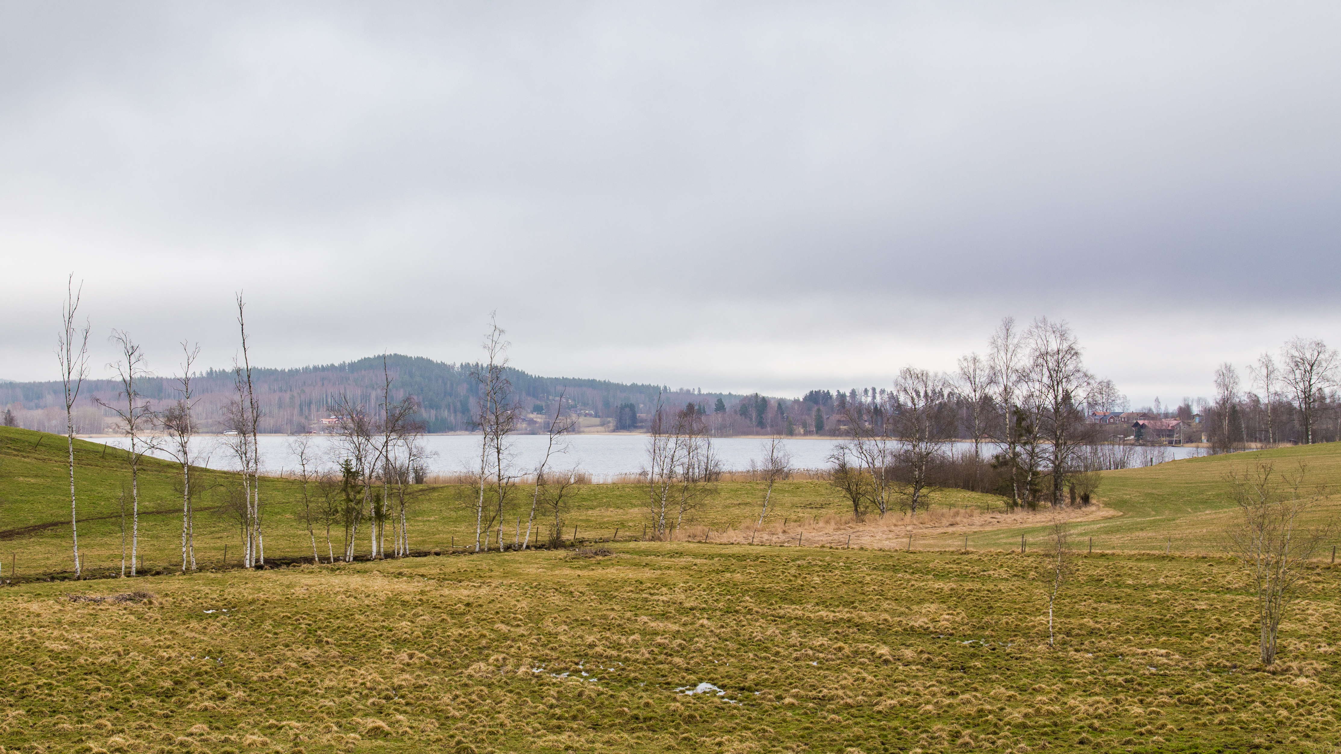 Lake Södra Viggen (Southern Viggen), also Lilla Viggen (Smaller Viggen), Hedemora Municipality, Dalarna County, Sweden.